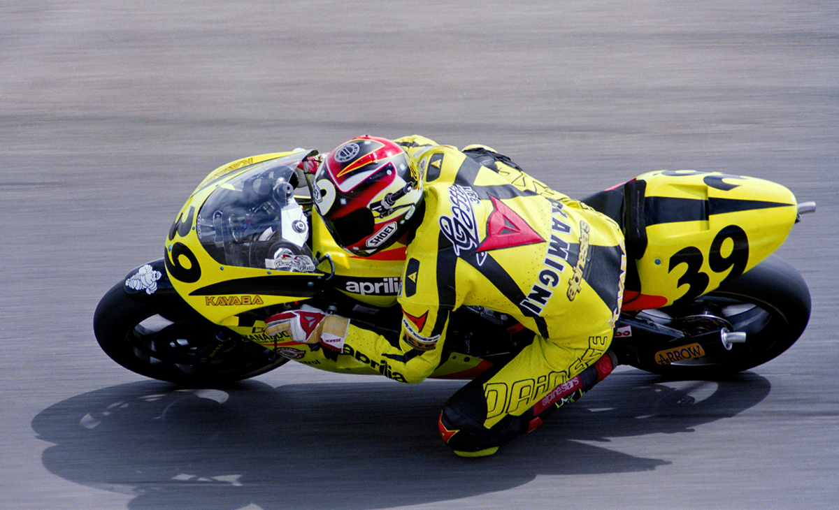 Alessandro Gramigni at the 1994 USGP Laguna Seca